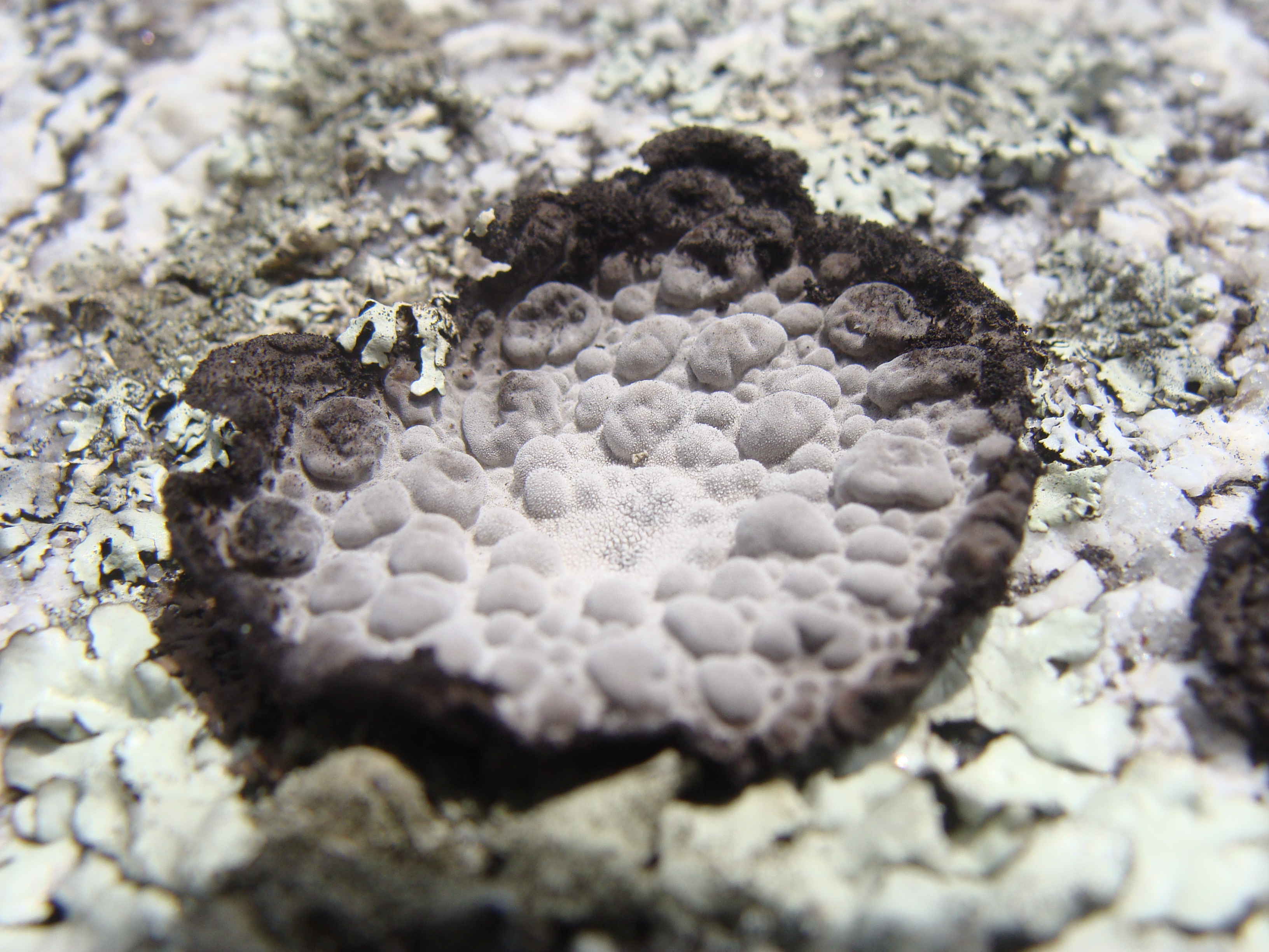 Lasallia pustulata in Corunna, Galicia, España.